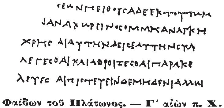 THE "PHAEDON" OF PLATO. 3rd CENTURY B.C.